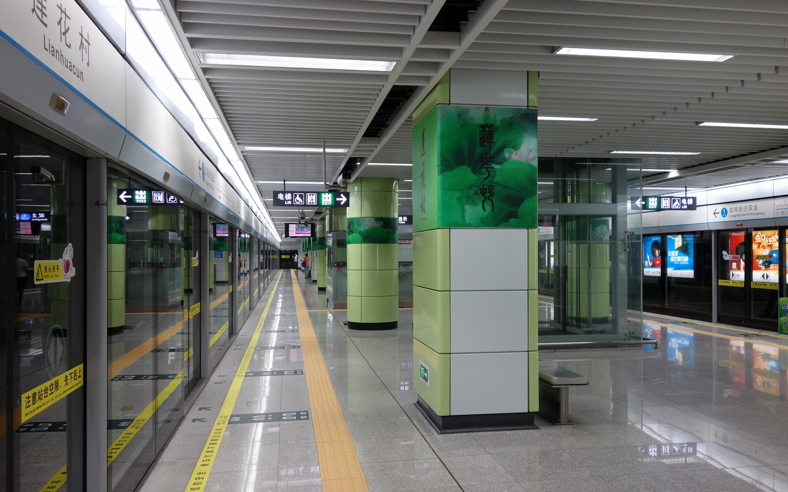 Lianhuacun Station, Longgang Line.